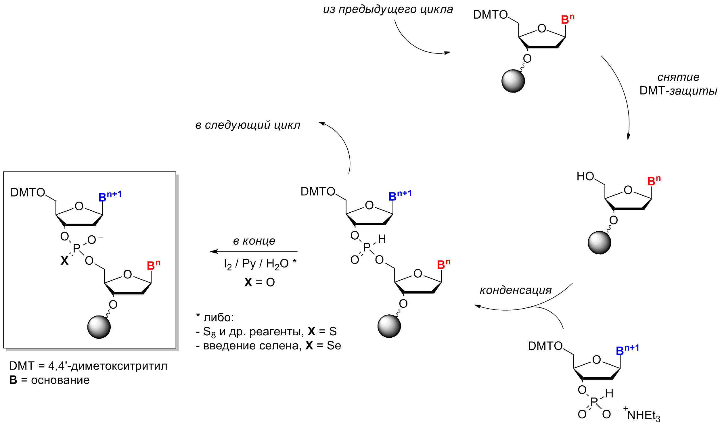 H-phosphonate oligosynthesis